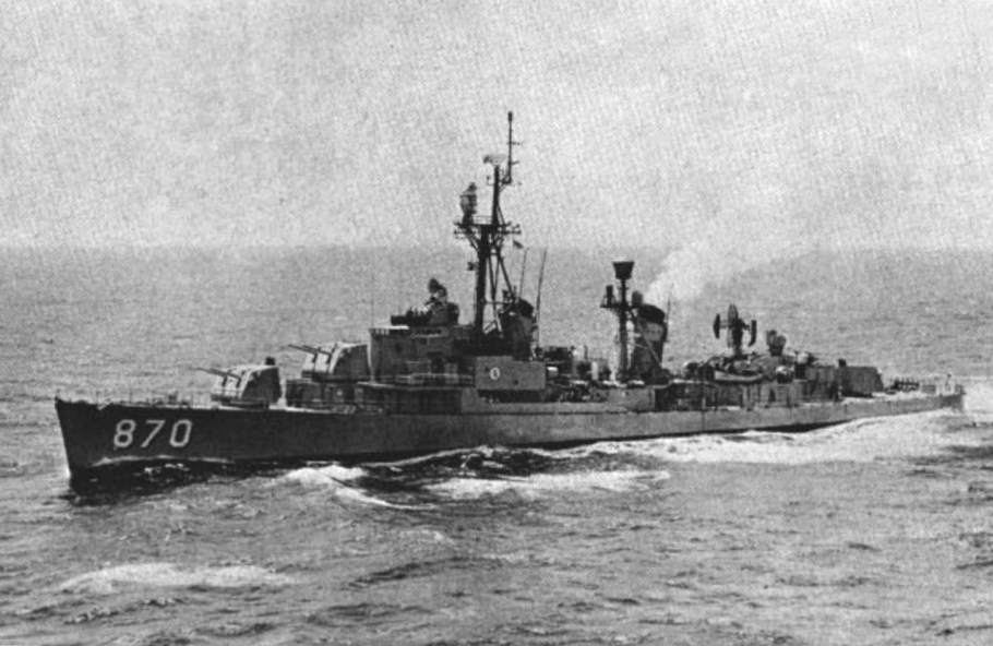 The U.S. Navy radar-picket destroyer USS Fechteler (DDR-870) underway before her FRAM I-modernization. She was modernised at the Long Beach Naval Shipyard and re-designated DD-870 in 1963.